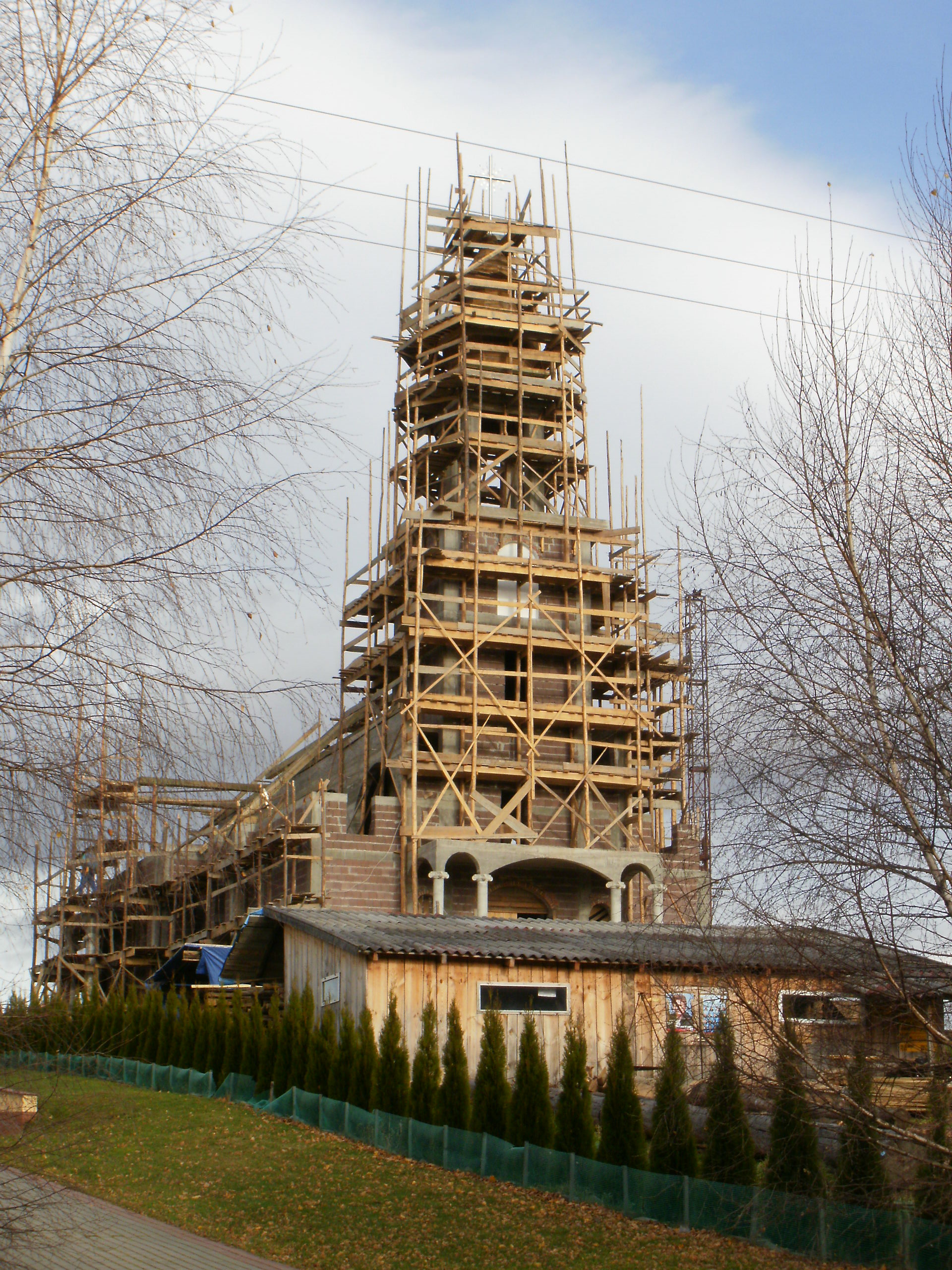 Church in Sowina